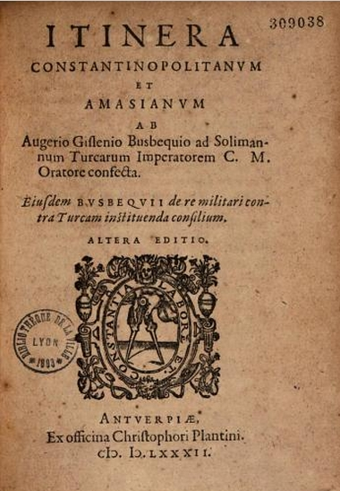 Busbecq, Turkish letters, 2nd ed., title page